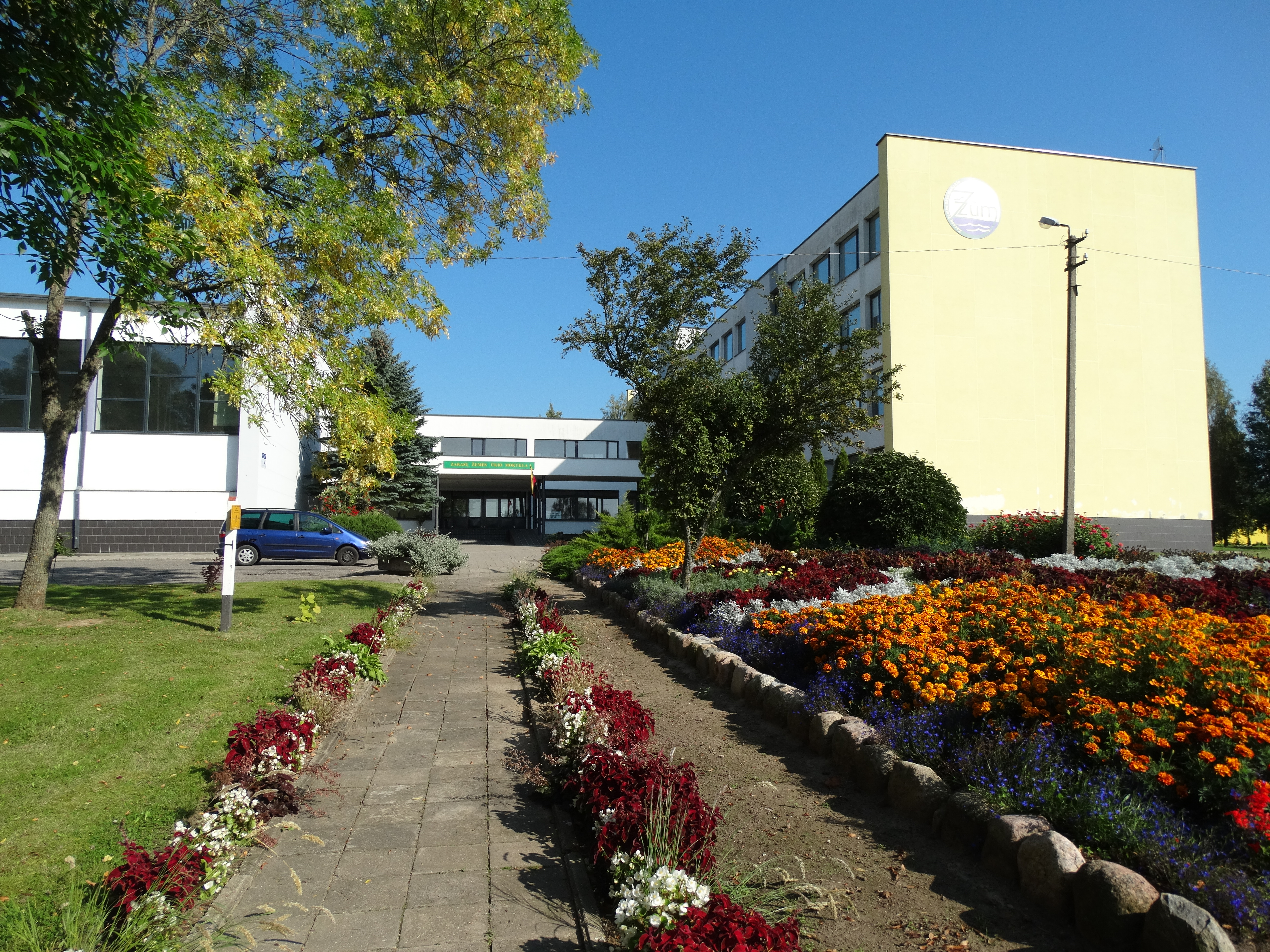 Agriculture School, Dimitriškės, Zarasai District, Lithuania